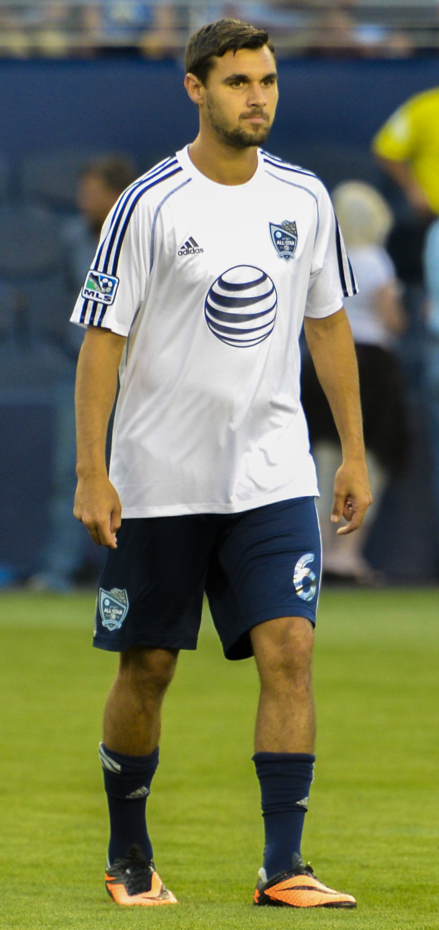 Chris Wondolowski of the San Jose Earthquakes, Forward, warming up at the MLS All Star game at Sporting Park, Kansas City, Kansas on July 31st, 2013.